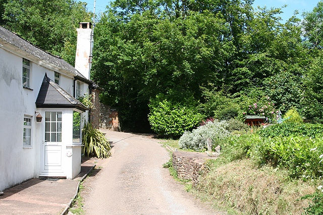 Templeton: near Templeton Bridge. A cottage by the entrance to Coombe Mill. The lane turns left here and then runs roughly northwards to Stoodleigh Beacon